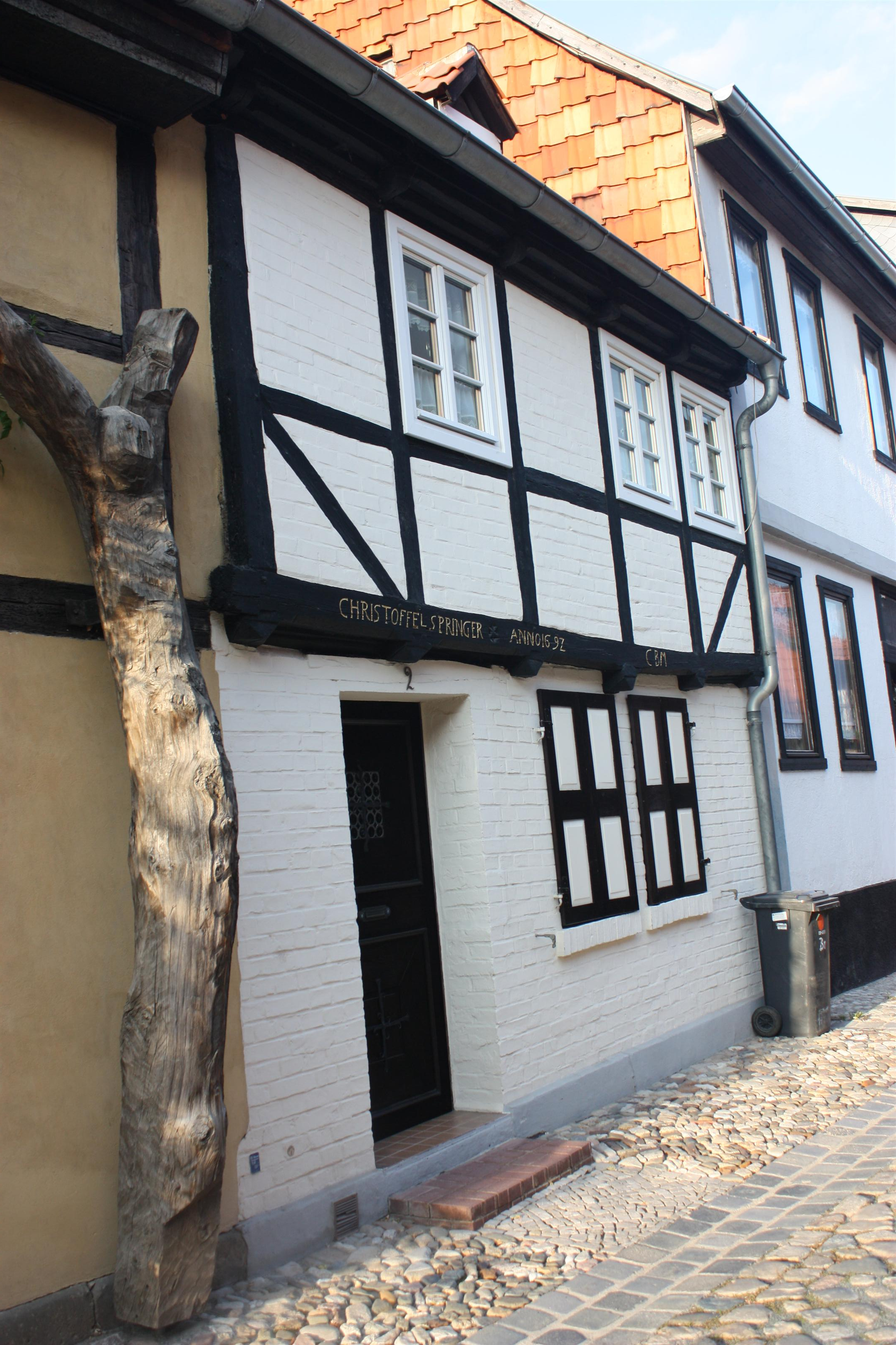 This is a photograph of an architectural monument.It is on the list of cultural monuments of Quedlinburg Wassertorstraße 02 (Quedlinburg)